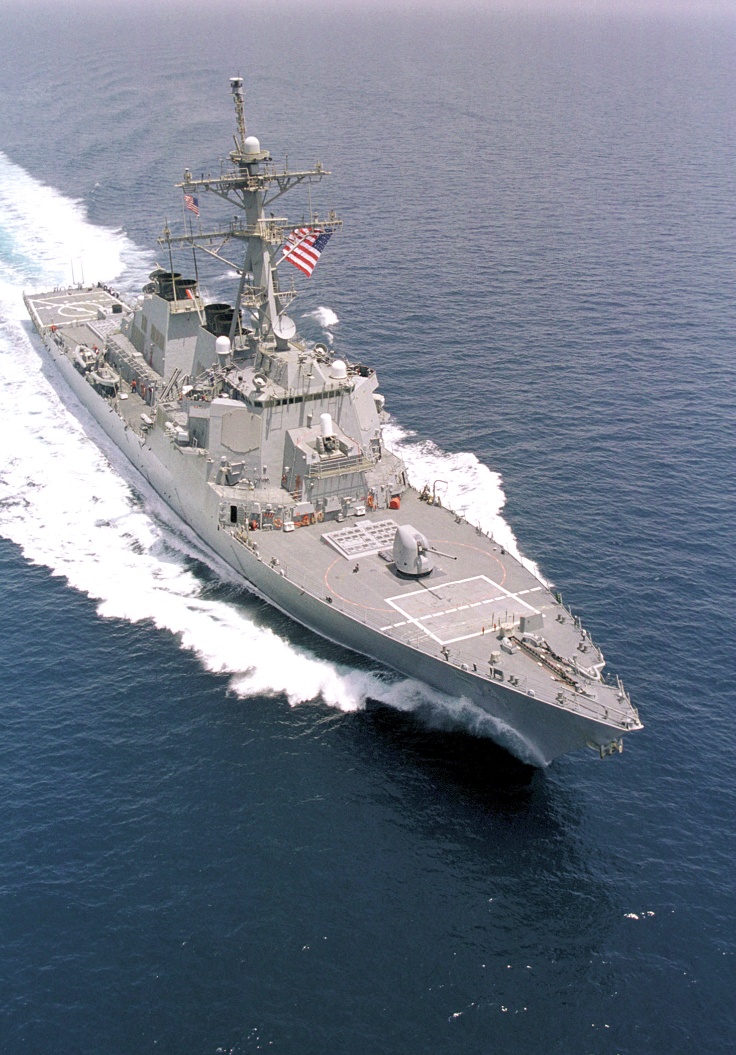 At sea with USS Curtis Wilbur (Jul. 09, 1999) — USS Curtis Wilbur (DDG-54) patrols the waters of the Arabian Gulf as part of Carrier Task Force Five Zero (CTF-50). Curtis Wilbur is currently operating with the USS Constellation (CV-64) in support of Operation Southern Watch.